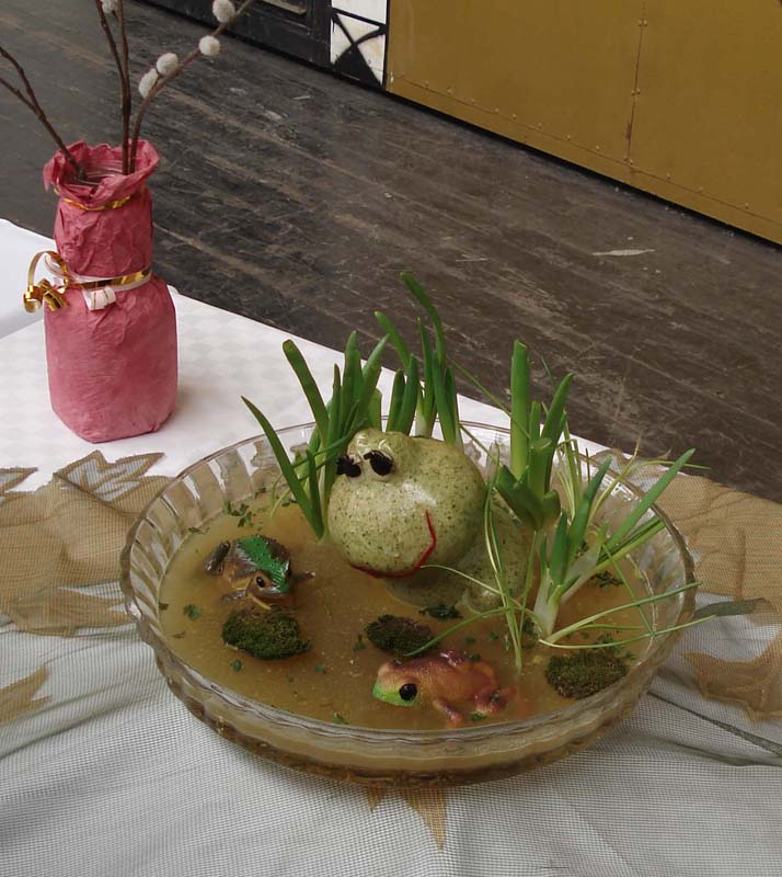 Jelly festival, Miskolc, Hungary, 2008